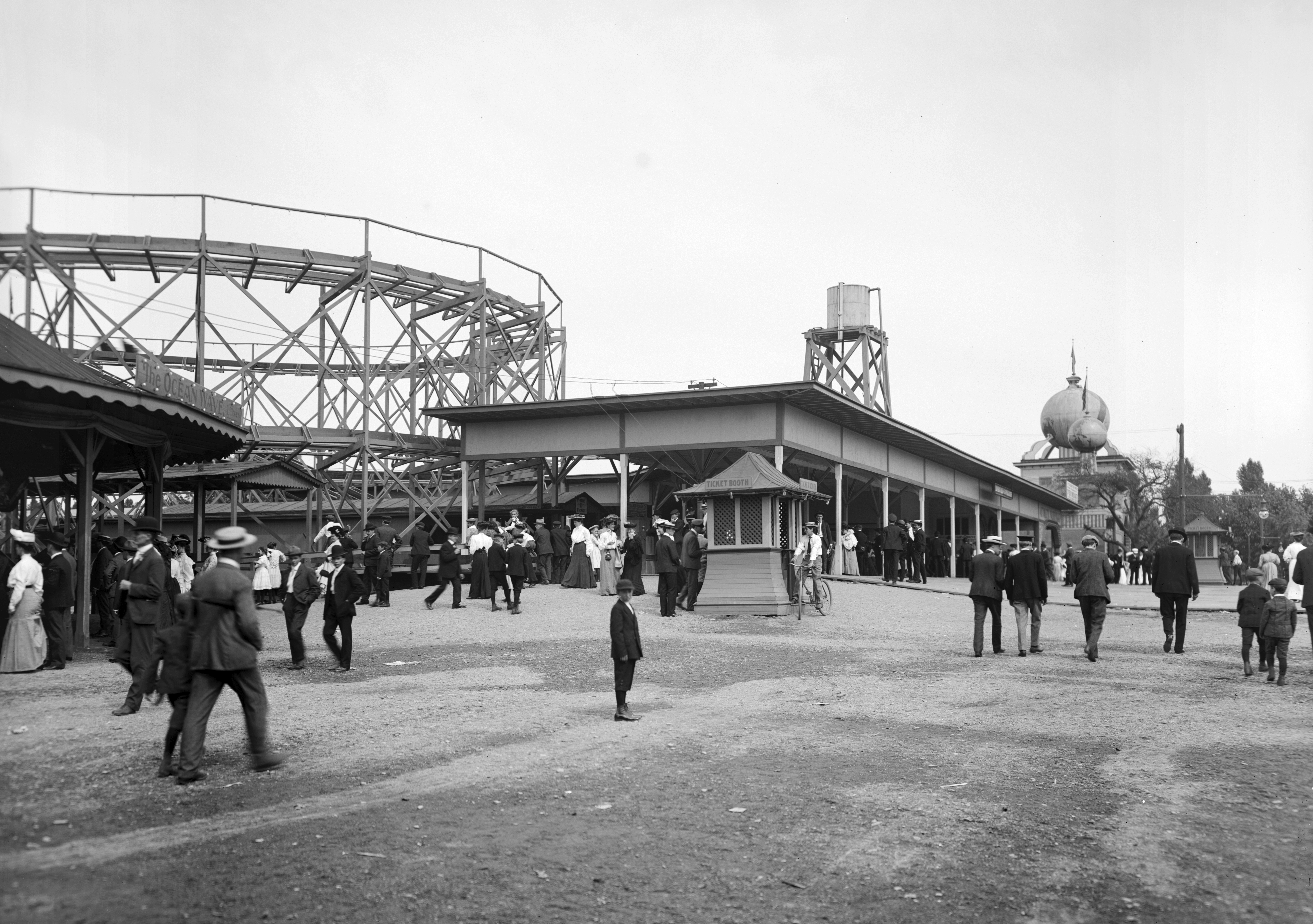 This file can be found by going to the following LOC collection and searching for "Euclid Beach": All pictures in the collection were taken by 1920. This particular one is labelled to have been taken between 1890 and 1910. I know it had to be after 1895, because there is a roller coaster in the picture, and the first roller coaster at Euclid BEach opened in 1896.